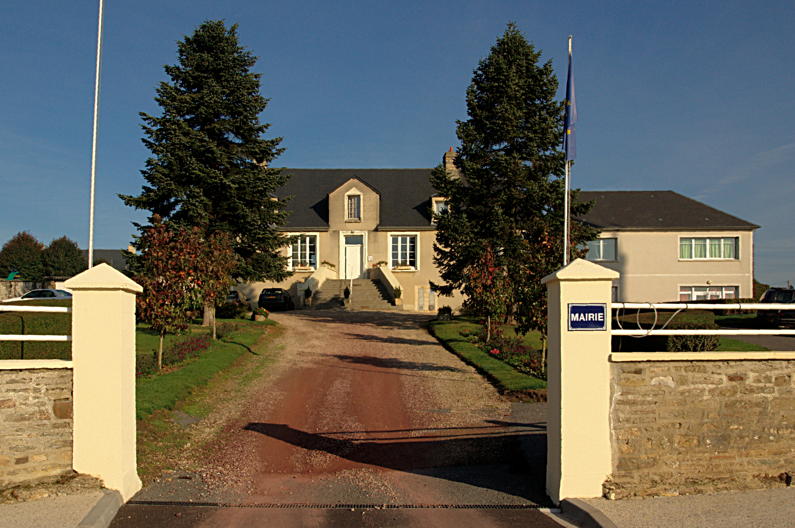 The Town hall of Epinay-sur-Odon in Calvados, French.